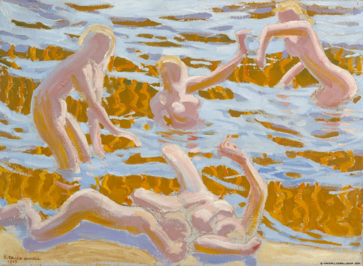 Aallottaret by Akseli Gallen-Kallela, 1909. First publicly displayed in Paris, in 1909. See Lilja, Jenny (1972). Runoilija ja eksistenssi : eksistentiaalianalyyttinen tutkimus Uuno Kailaan tuotannon teemoista ja niiden yhteyksistä ekspressionismiin, väitöskirja( Dichter und Existenz ). Jyväskylän yliopisto p. 47. Snippet here. See also File:Gallen-Kallela, Aallottaret.jpg.